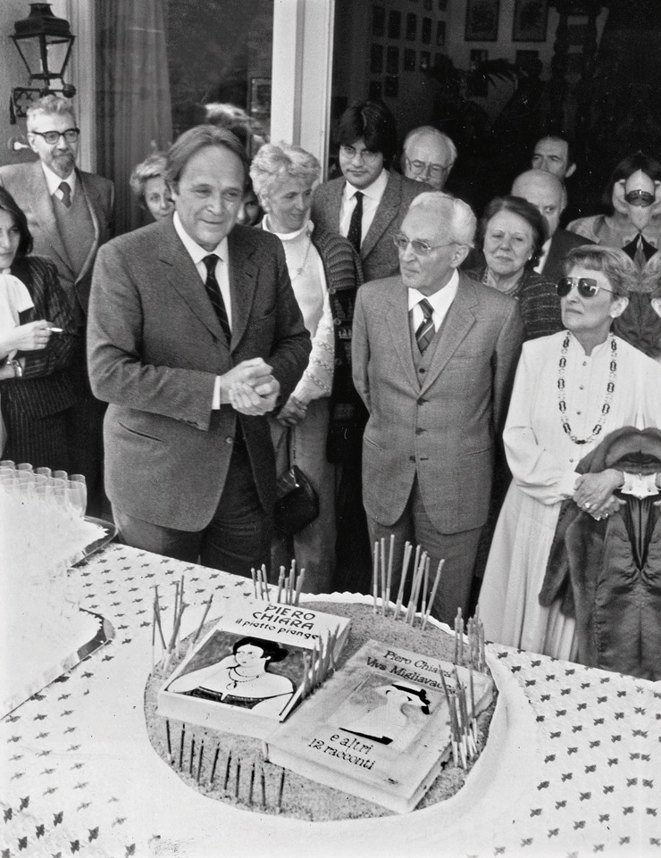 Mario Formenton with Italian author Piero Chiara.